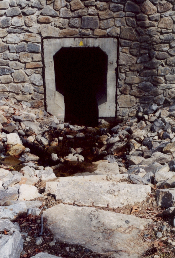 The Midstate Trail passes through the Route 20 cow tunnel in Charlton, Massachusetts. by Paul Gagnon 2000.